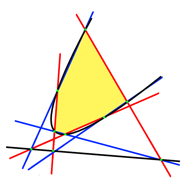 Image for proving of Pascal's theorem with using theorem about 9 point on cubic curve